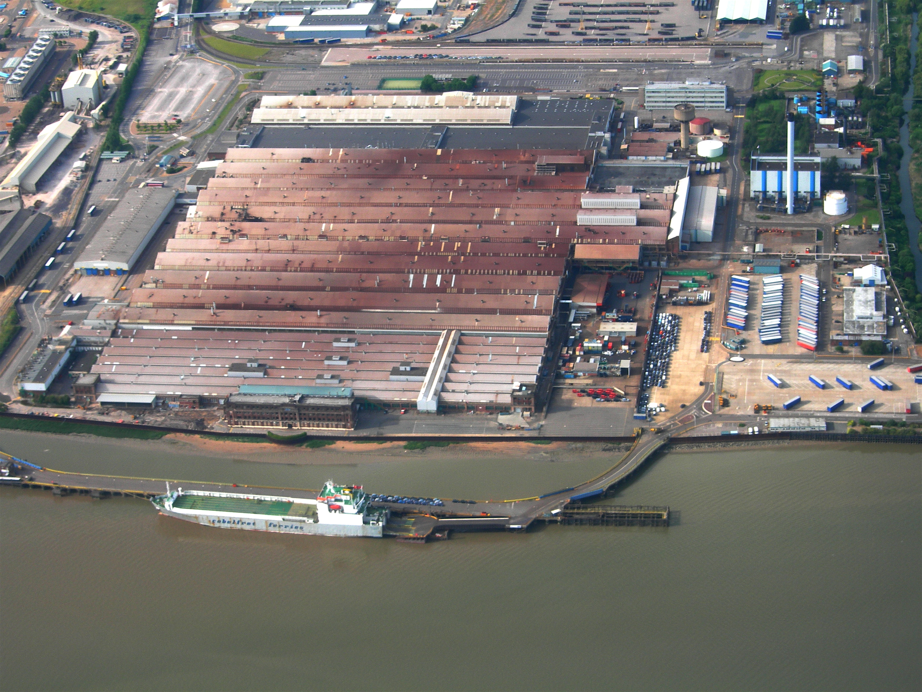 Ford at Dagenham, London, England. With Thames in the foreground. The Edlantine of Cobelfret Ferries company